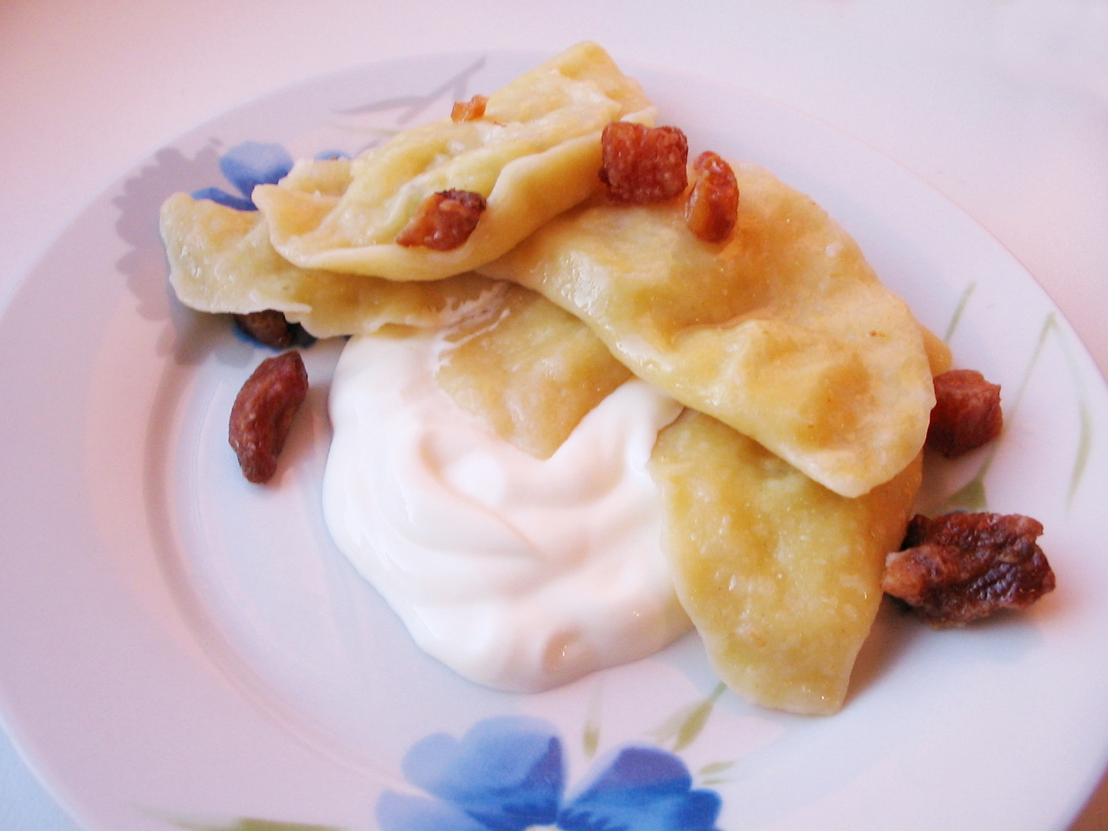 Vareniki (dumplings) served with smetana (sour cream) and shkvarki (cracklings)